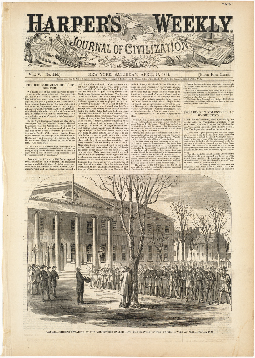 File name: 10_09_000042 Title: General Thomas swearing in the volunteers called into the service of the United States at Washington, D.C. Creator/Contributor: Homer, Winslow, 1836-1910 (artist) Date issued: 1861-04-27 Physical description: 1 print : wood engraving Genre: Wood engravings; Periodical illustrations Notes: Published in: Harper's Weekly, Volume V, 27 April 1861, p. 257. Collection: Winslow Homer Collection Location: Boston Public Library, Print Department Rights: No known restrictions Flickr data on 2011-08-11: Camera: Sinar AG Sinarback 54 FW, Sinar m Tags: Winslow Homer User: Boston Public Library BPL